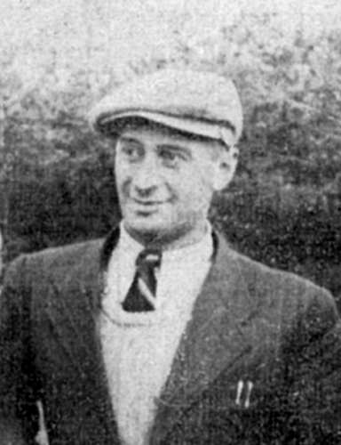 Michal Podchlebnik (born in 1907), survivor of Chełmno (Kulmhof) extermination camp established by Nazi Germany during World War II on the territory of occupied Poland in the town of Chełmno near Łódź, for the purpose of killing Jews of the Łódź Ghetto and the local inhabitants of Warthegau (Reichsgau Wartheland).